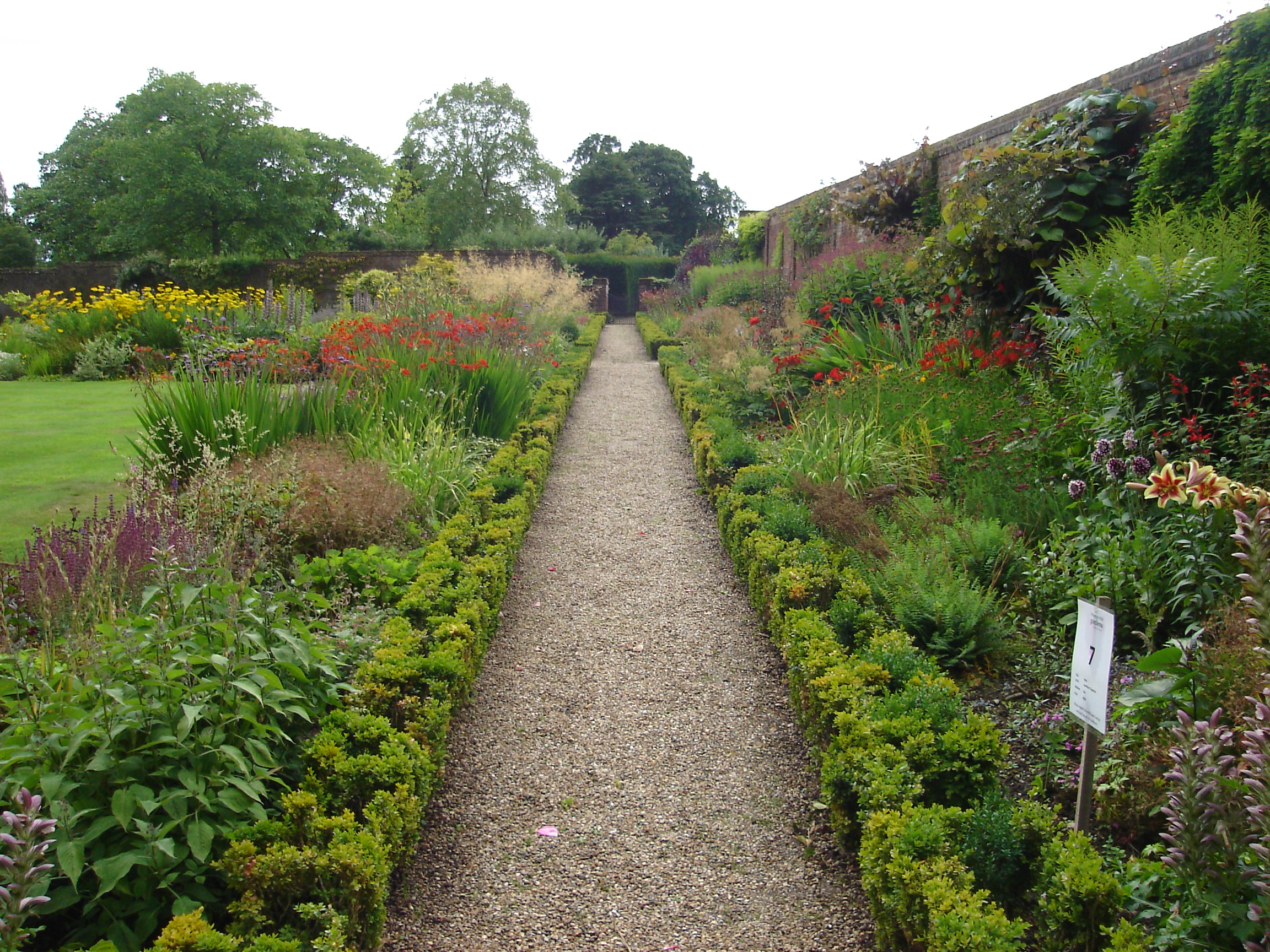 Herbaceous border at Hoveton Hall gardens , Hoveton, Norfolk